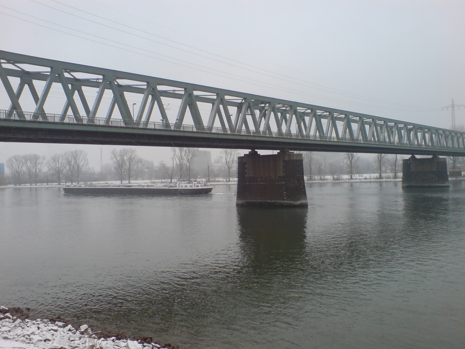 The Kaiserbrücke in Mainz, Germany. A river boat / barge heading downriver.